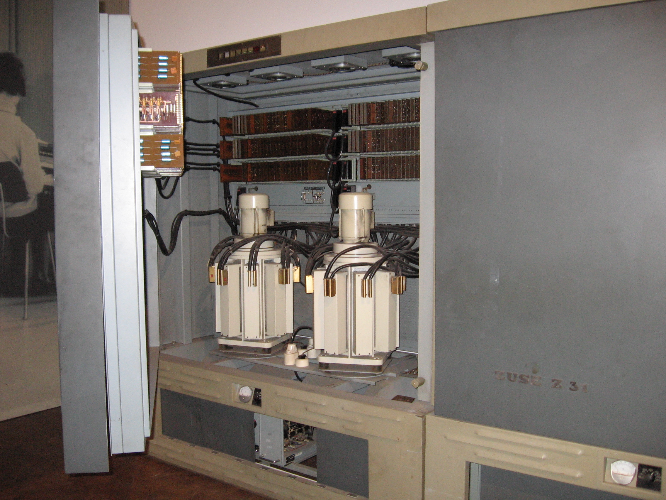 Inside of a Zuse Z31 computer in the Berlin museum for technology.